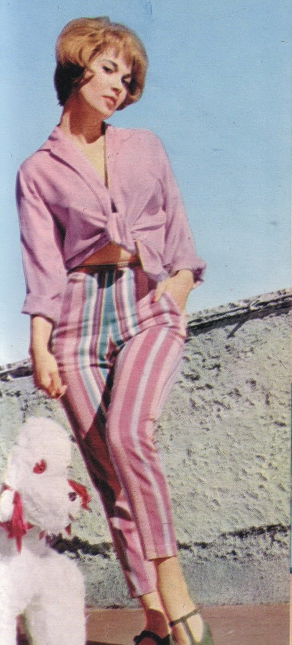 Italian actress Luisa Rivelli walking in Rome